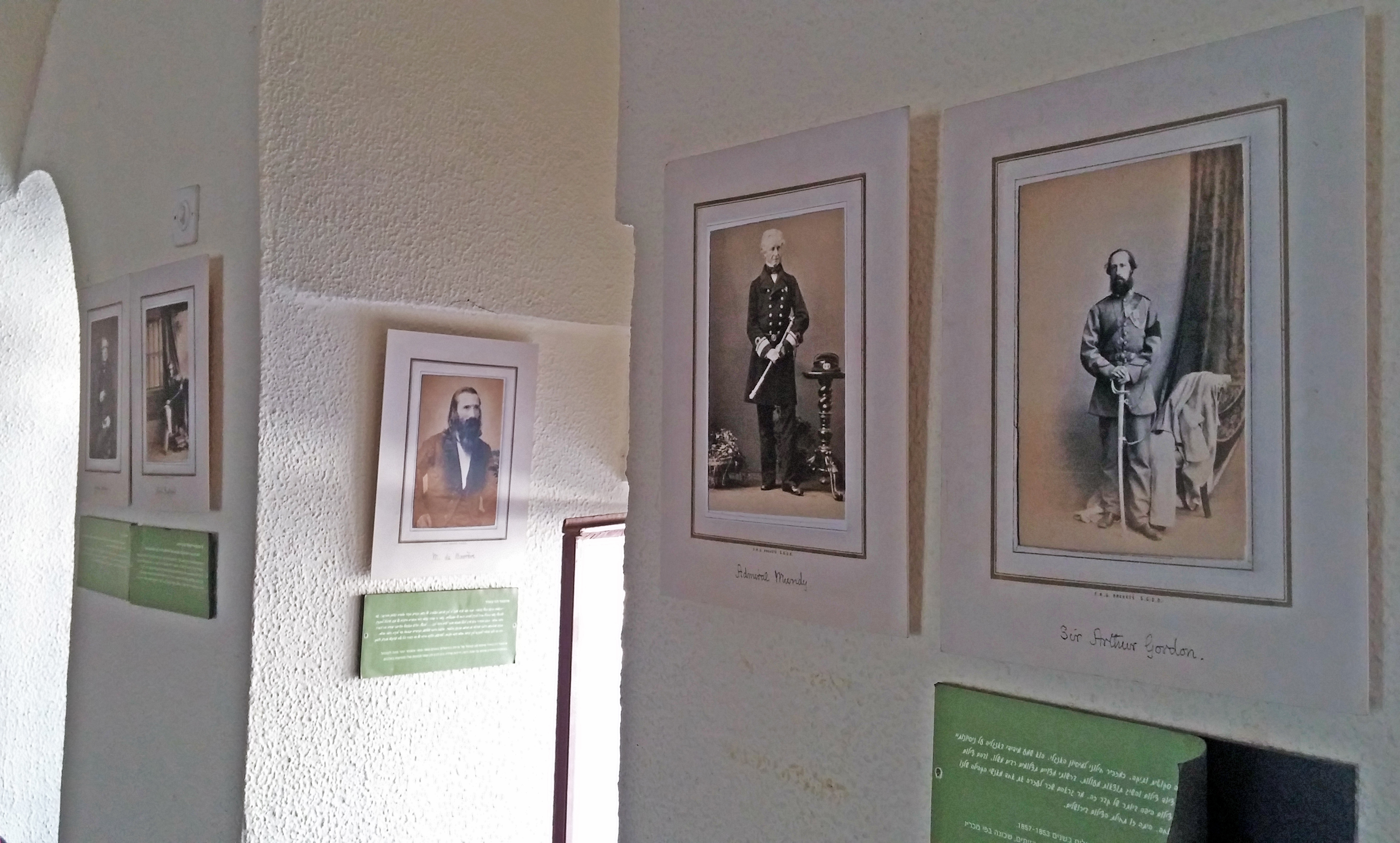 Kerem Avraham in Jerusalem